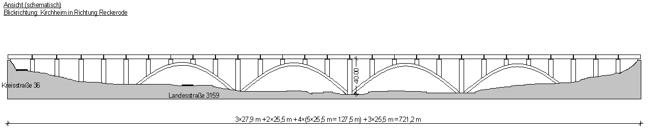 Waelsebachtalbruecke, Hanover-Würzburg high-speed railway line.